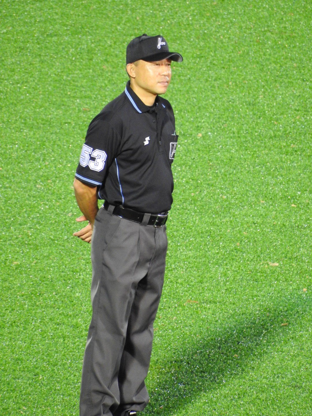 umpire of NPB.